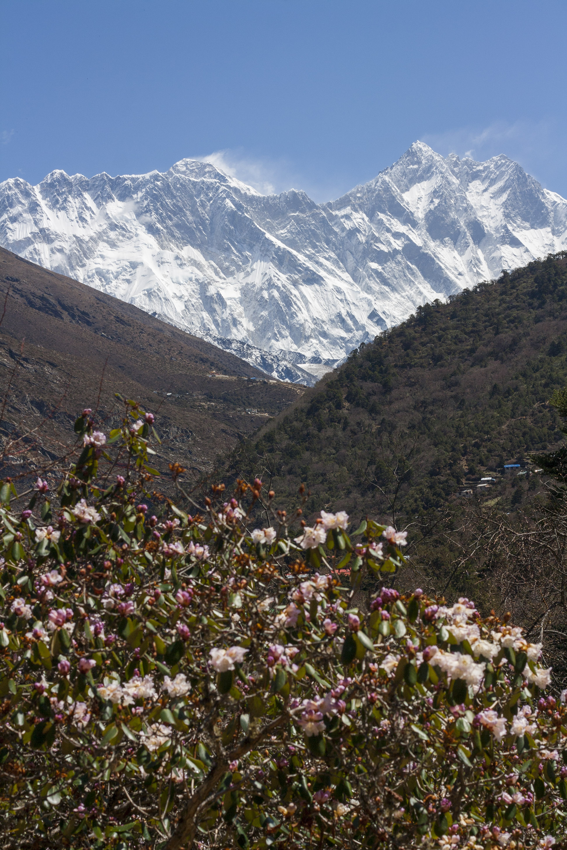 Rhododendron in bloom on the hike from Tengboche to Pangboche. Mt. Everest can be seen in the background (the pyramidal peak sticking up from behind the nearer mountains).